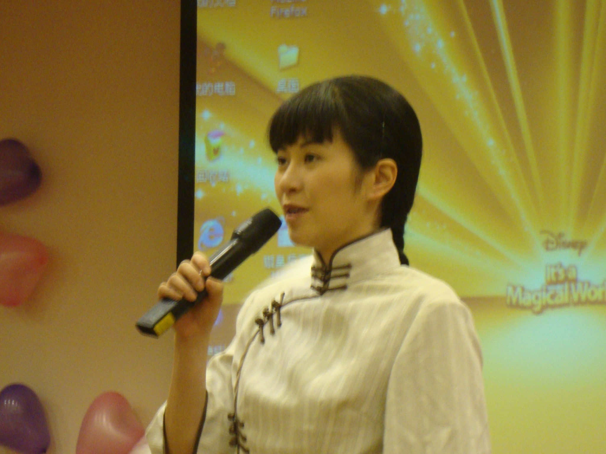 A picture I took when I visited Michelle in Hengdian